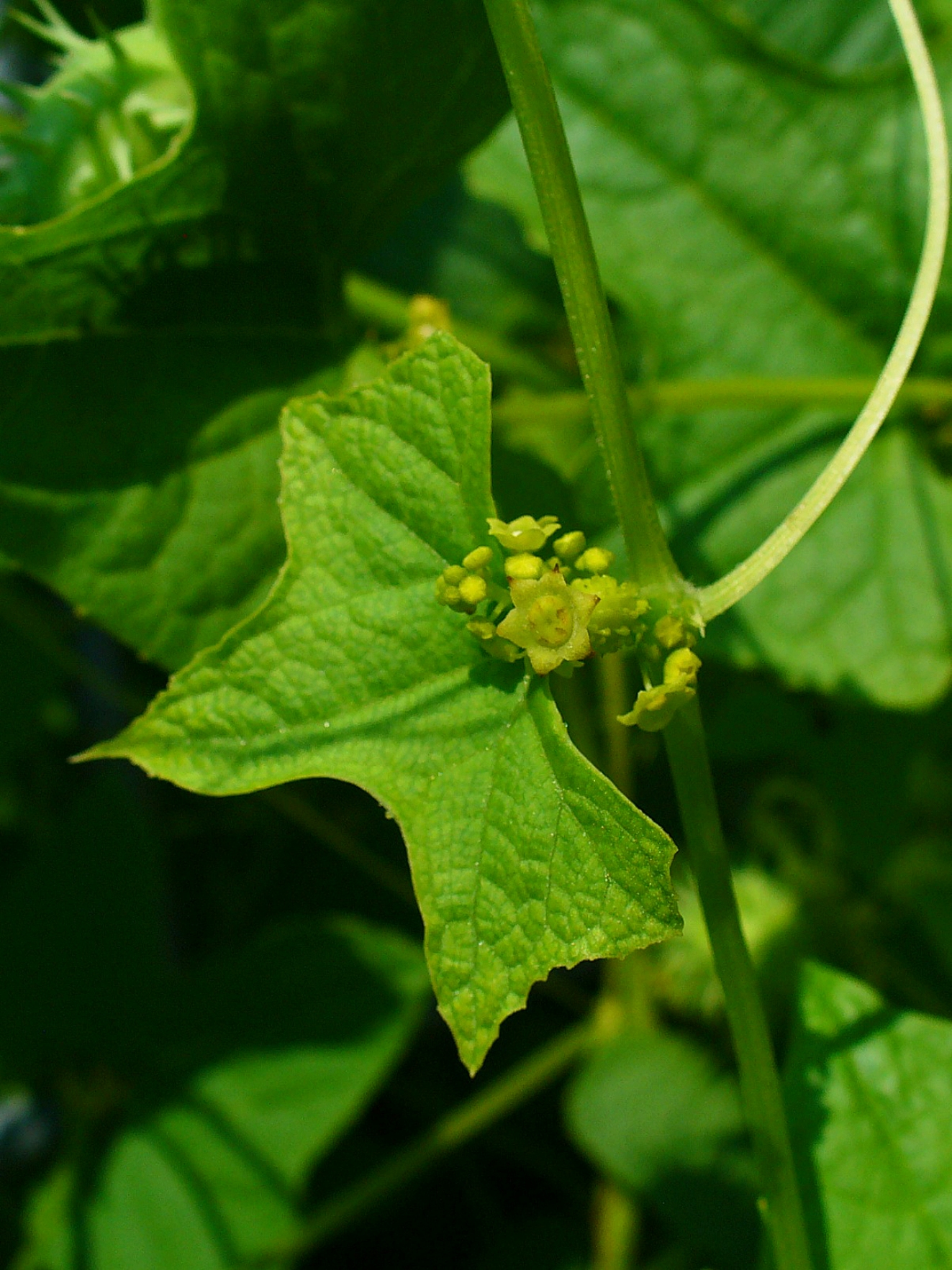 Cyclanthera brachystachya, Cucurbitaceae, Bolivian Cucumber, inflorescence; Botanical Garden KIT, Karlsruhe, Germany.